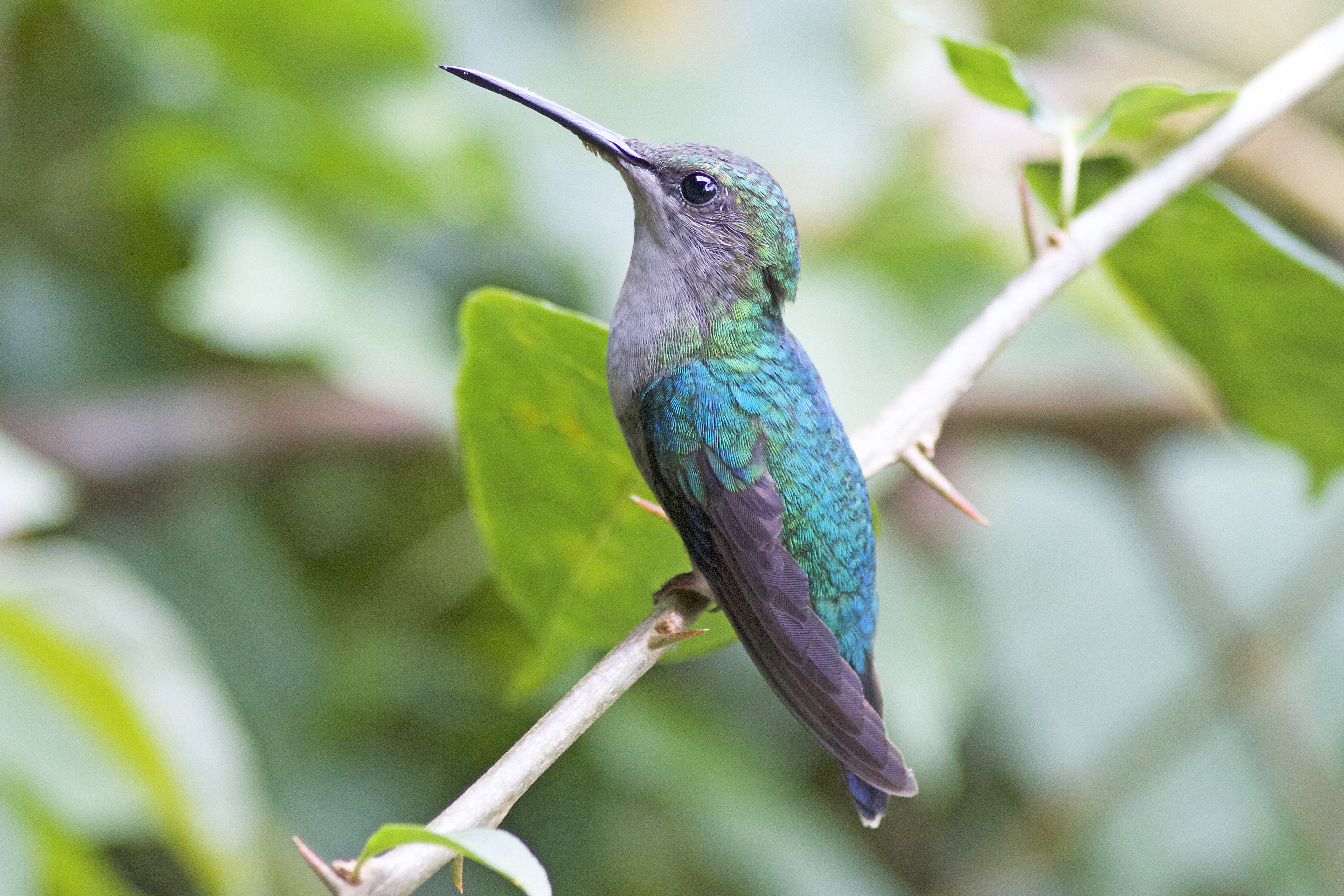 photo of female Violet-crowned Woodnymph